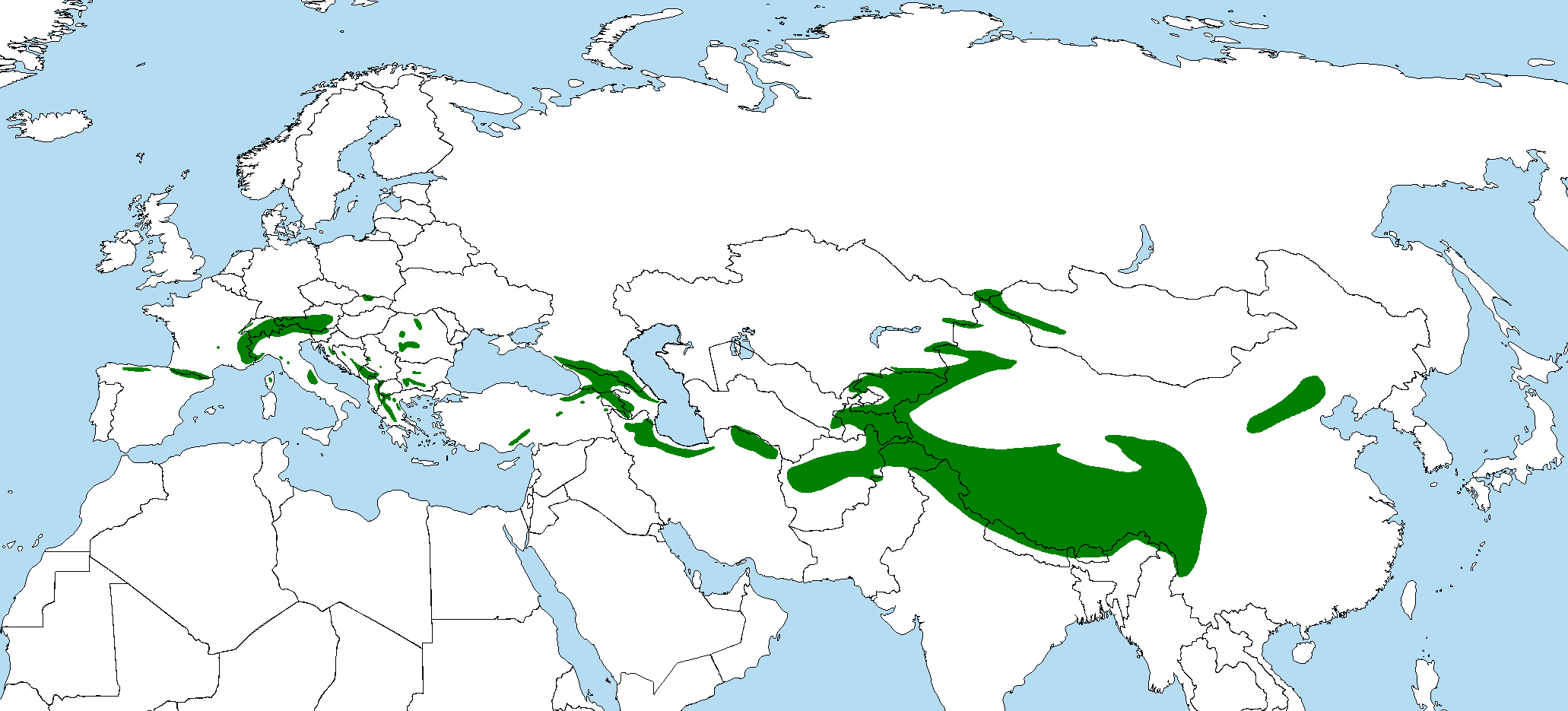 Distribution of Tichodroma muraria (T. m. mauraria and T. m. nepalensis. Self build, using photo filtre; updated with information from Lynx HBW, Snow & Perrins BWP Concise Edition, Hagemeijer & Blair EBCC Atlas of European Breding Birds, and MacKinnon & Phillipps Field Guide to the Birds of China. Note: data available for Europe is far more detailed than that available for Asia.